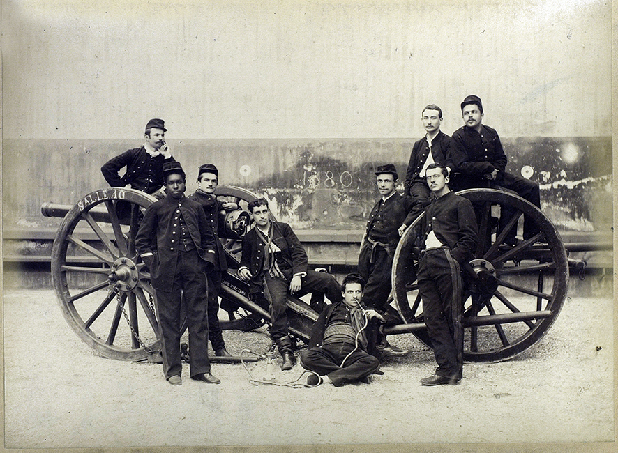 Sosthène Héliodore Camille Mortenol (1859-1930), élève officier guadeloupéen à l'école Polytechnique de Paris, photographie, 1880.